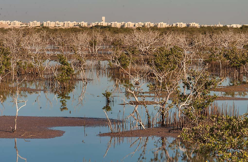 Mangroves (Avicennia marina) in Al Khor Island overlooking the mainland. Al Khor, Qatar.